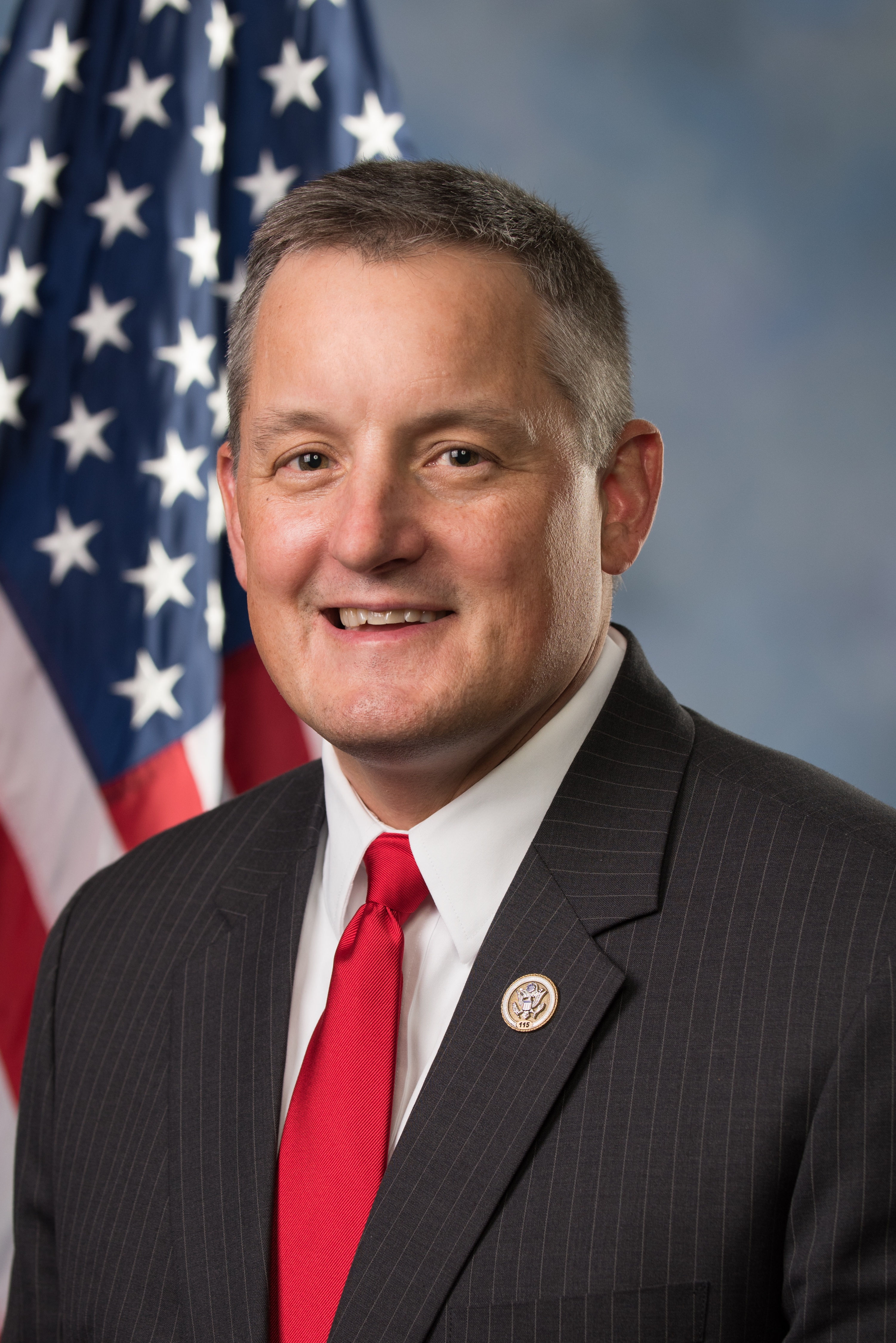 Bruce Westerman official photo for the 115th Congressional session